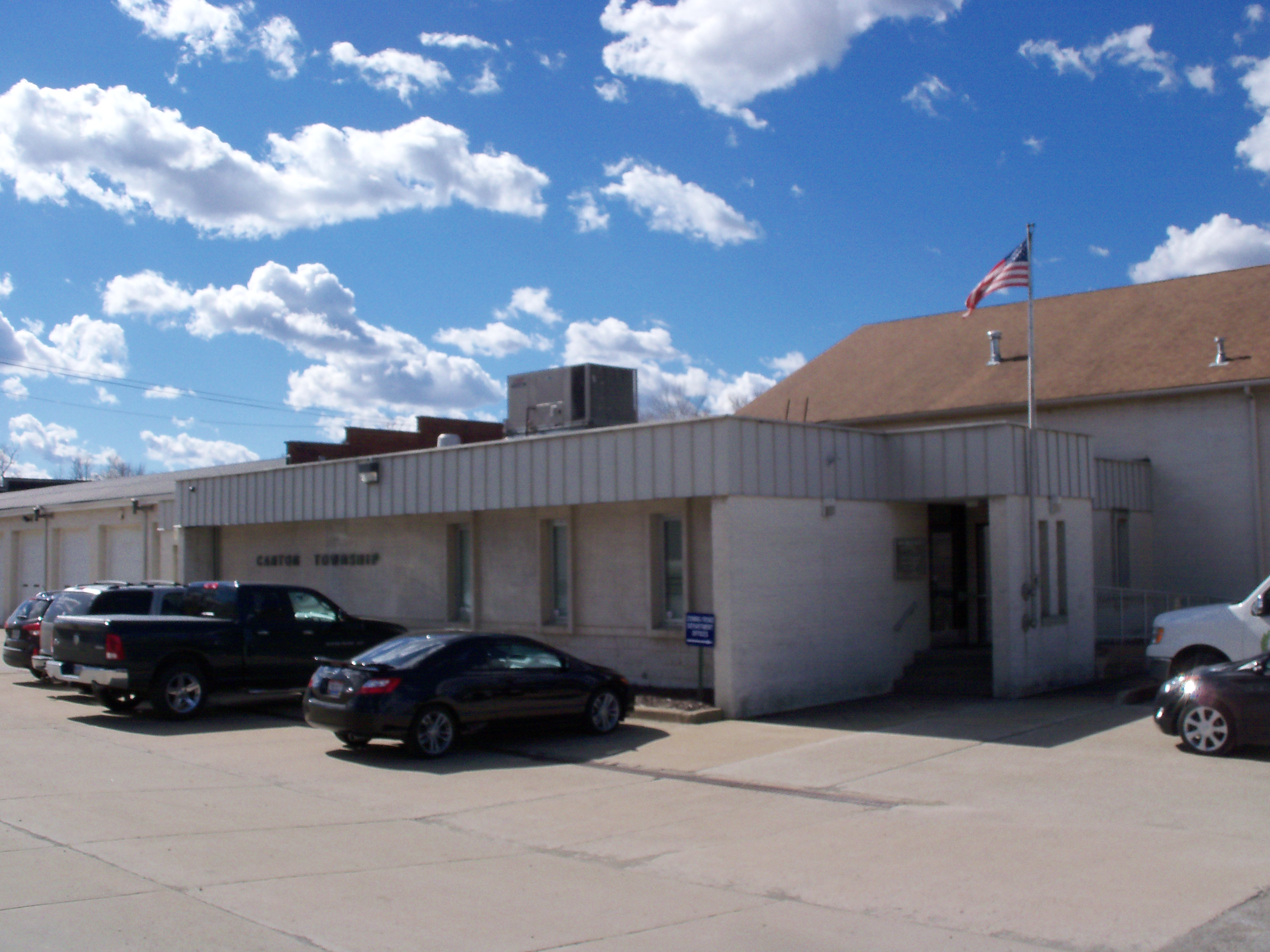 offices and garage of Canton Township, Stark County, Ohio on Central Avenue